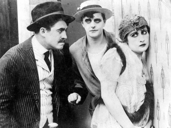 Local call number: PR07301 Title: Motion picture scene with (L-R) Walter Stull (?), Harry Myers, and Rosemary Theby from an unidentified film. Date: 1916. Physical descrip: 1 photonegative: b&w; 4 x 5 in. Series Title: (Print Collections) General note: This image was collected by filmmaker William "Billy" Bletcher (1894-1979) while working for the Vim Comedy Company between 1915 and 1917. The small film studio was based in Jacksonville and New York. The company produced hundreds of two-reel comedies (over 156 comedies in 1916 alone). Before going out of business in 1917, it employed such stars as Oliver Hardy, Ethel Burton, Walter Stull, Arvid Gillstrom, and Kate Price. General note: L-R: Walter Stull (?), Harry Myers, and Rosemary Theby. Repository: State Library and Archives of Florida, 500 S. Bronough St., Tallahassee, FL 32399-0250 USA. Contact: 850.245.6700. Persistent URL